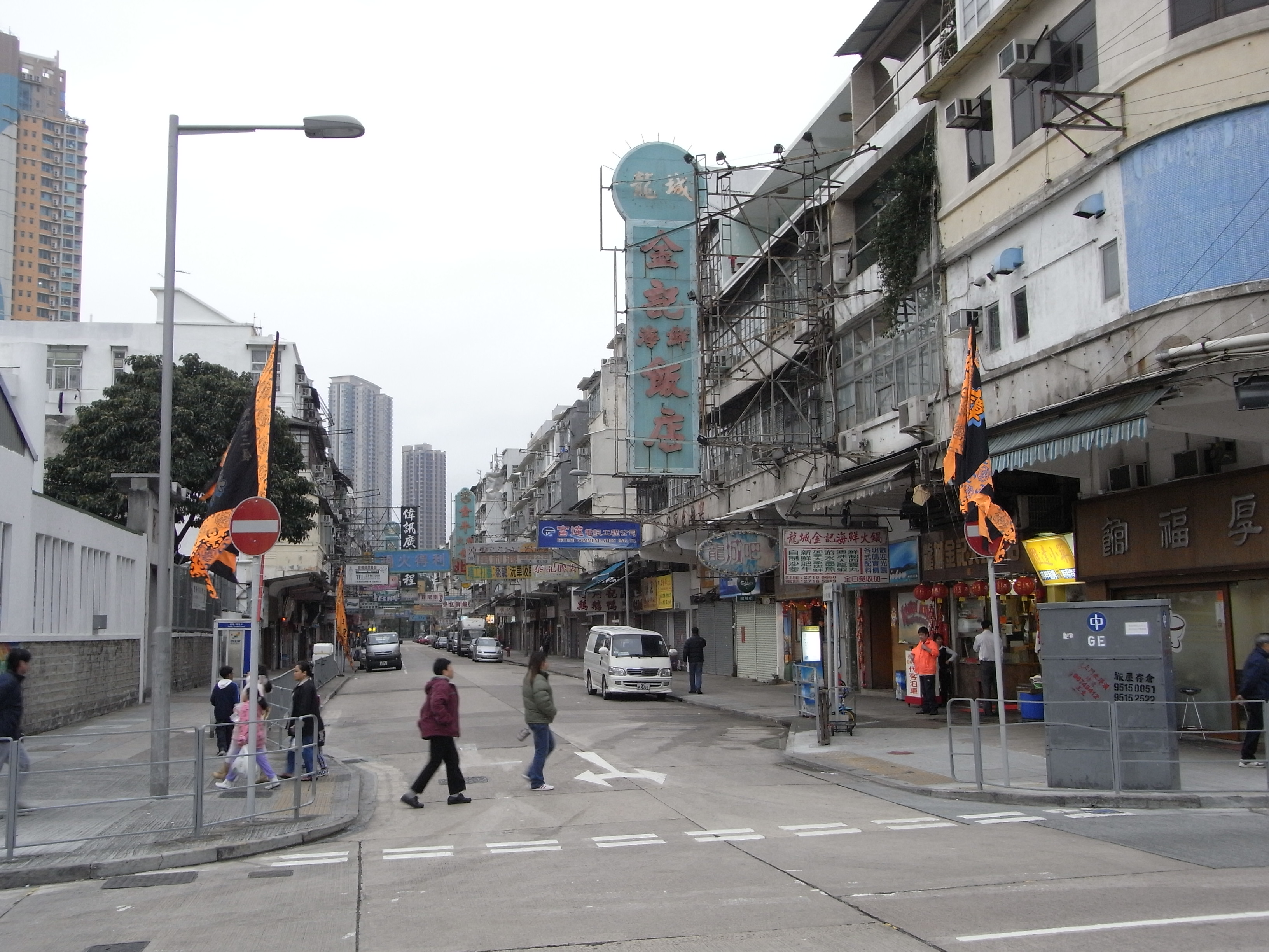 九龍城 賈炳達道 南角道